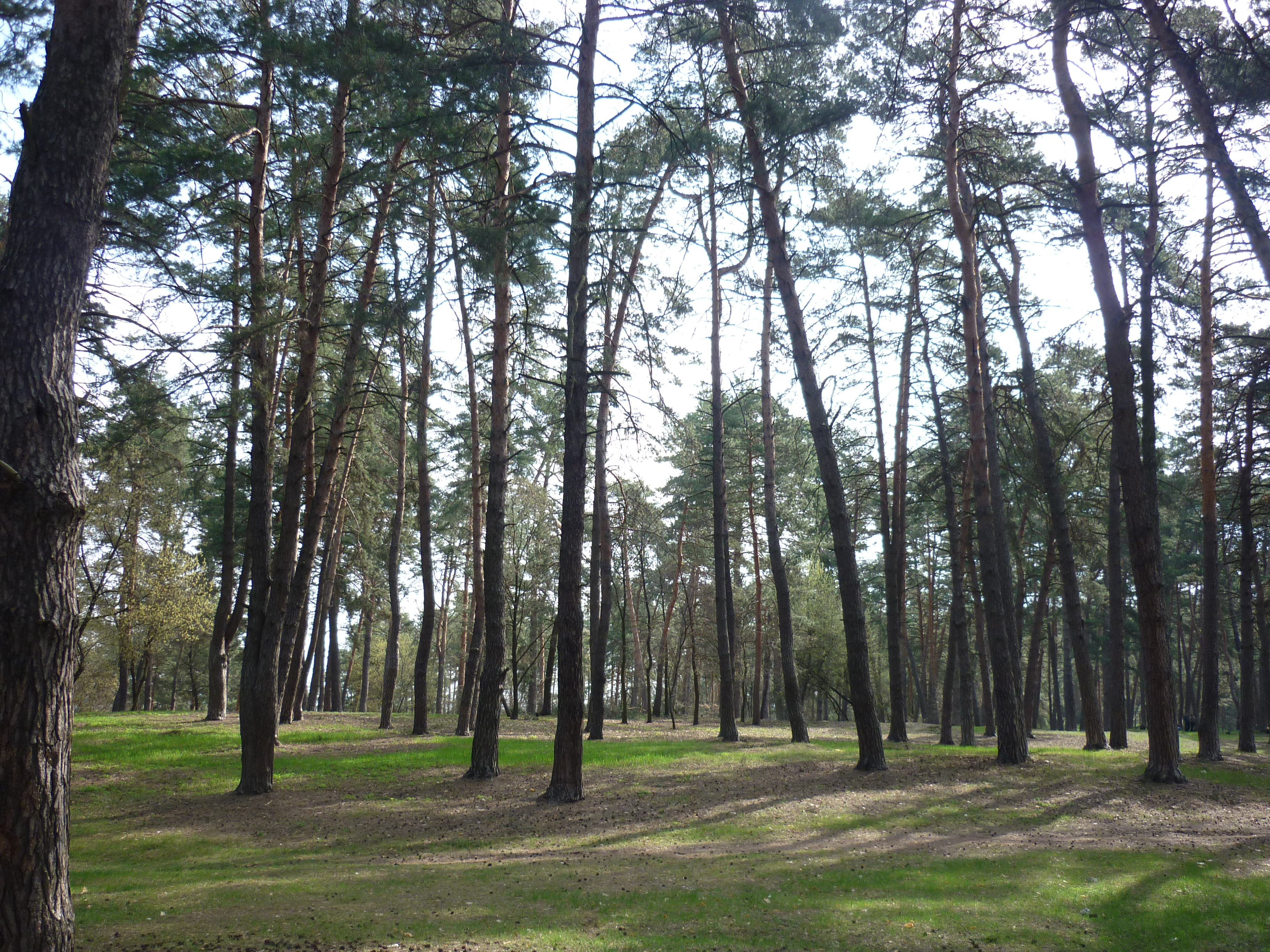 Cherkasy forest picture